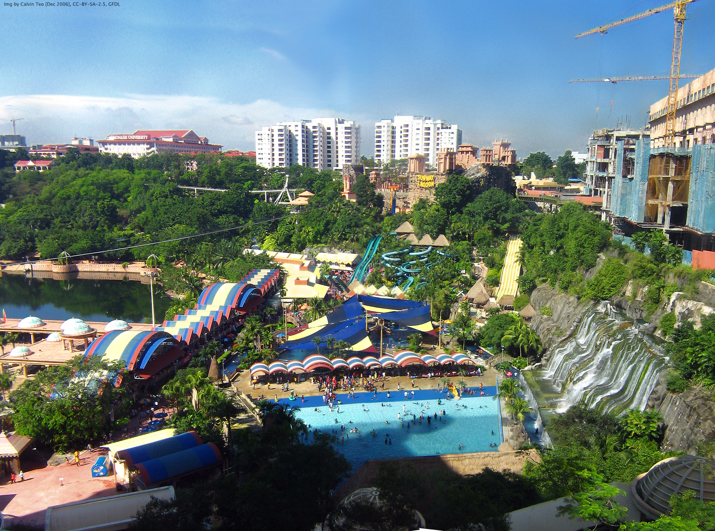 The Sunway Lagoon water theme park as view from above.